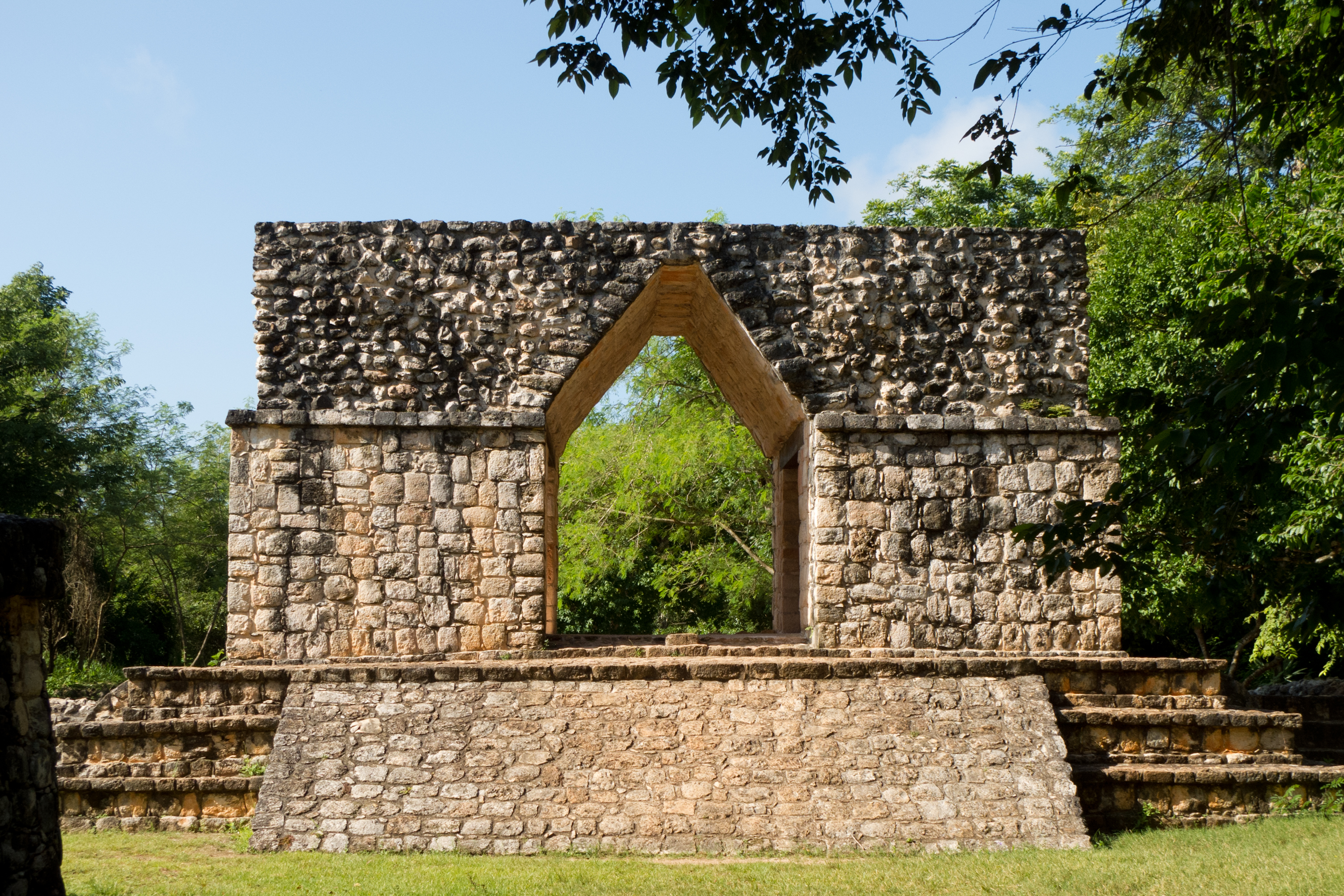 Ek' balam, Yucatán, Mexico.